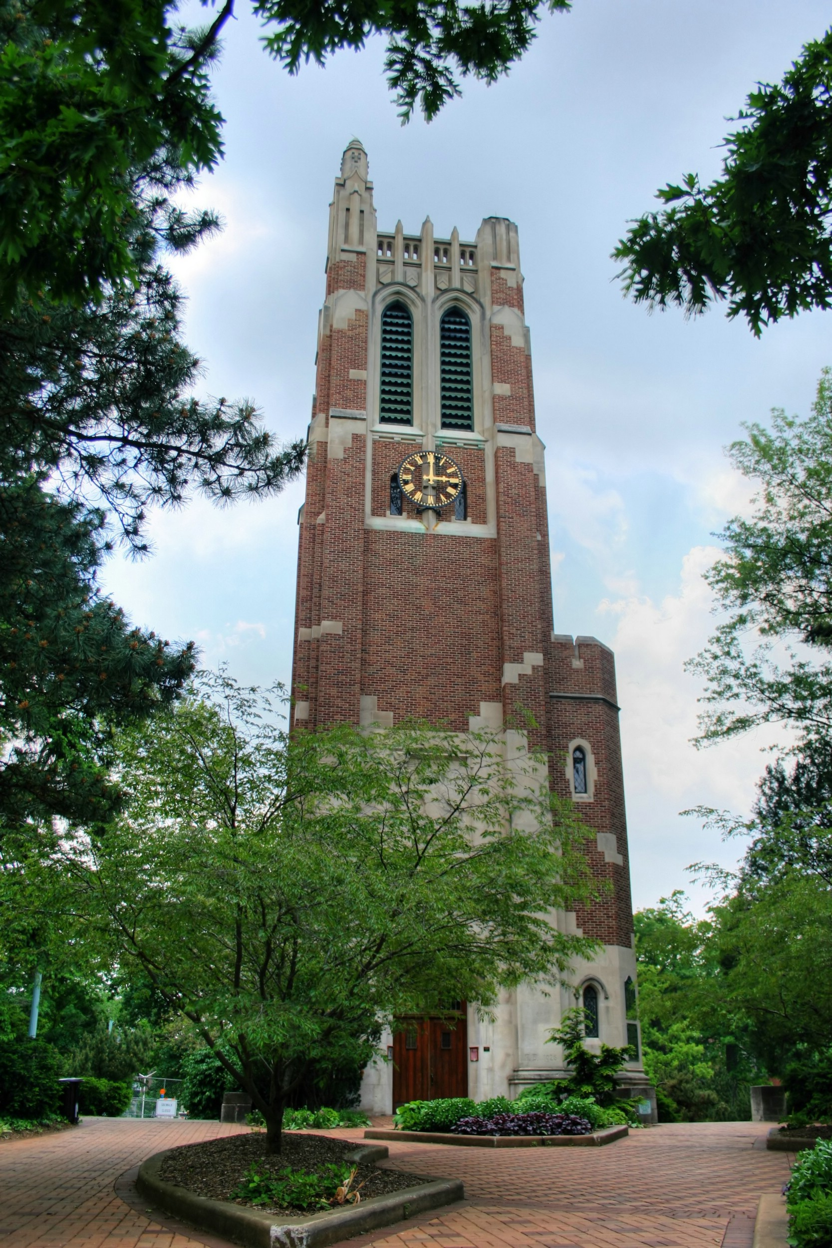 A photograph of the Beaumont Tower located on the Michigan State University campus in East Lansing, Michigan. This photograph is one of a series taken for Wikipedia by the submitter on May 28th, 2006 between the hours of 3pm and 6pm. Category:Images of Michigan